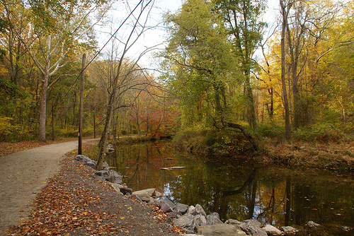 Ridley Creek, in Ridley Creek State Park. (I was involved in a stream study of Ridley Creek in a biology class in high school.) (dsc03100)